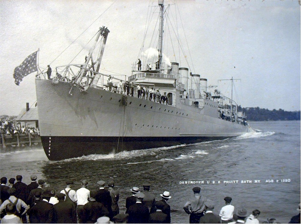 Launching of USS Pruitt (DD-347) on 2 August 1920 at Bath Iron Works, Maine (USA).